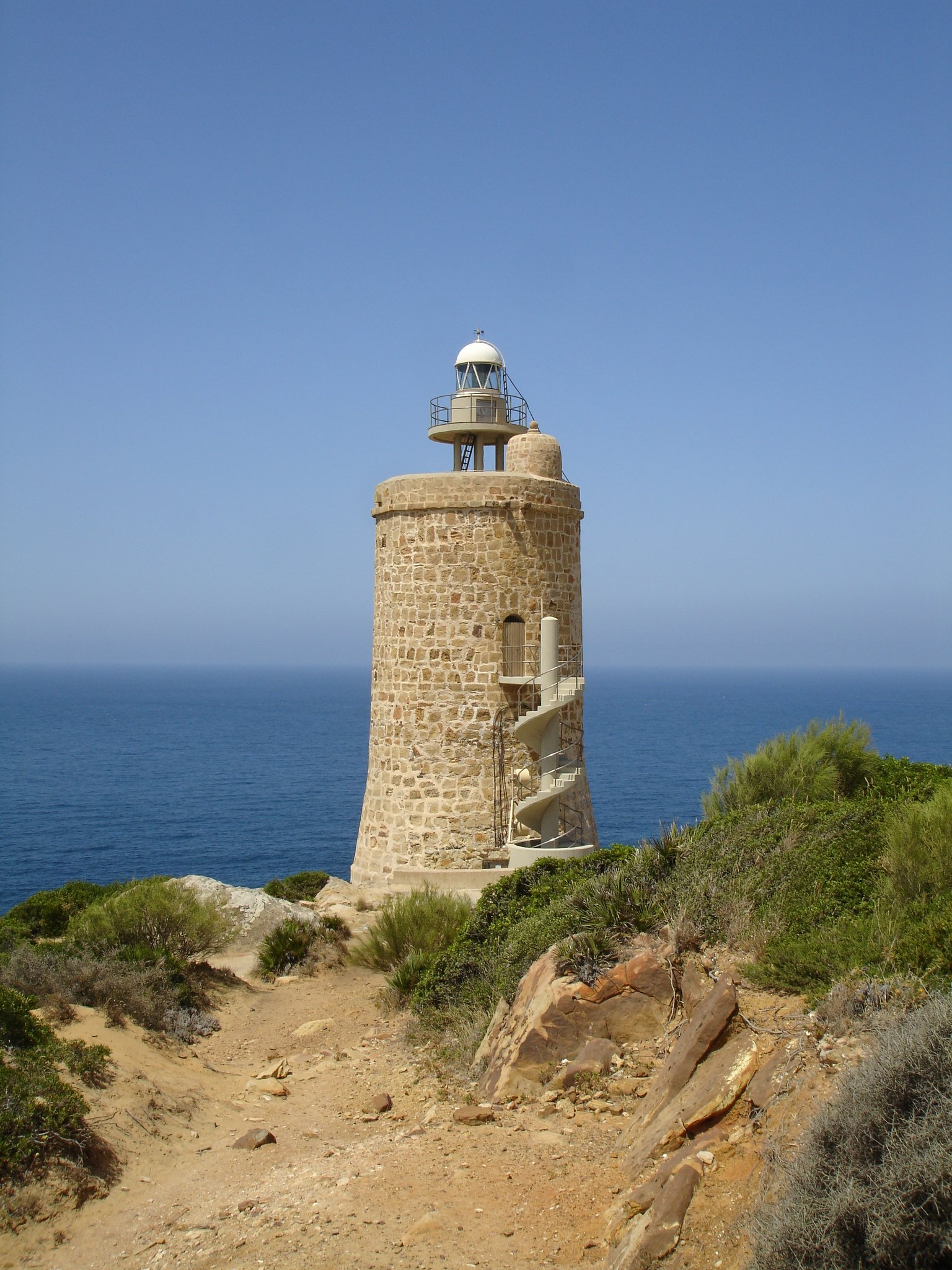 Camarinal Lighthouse. Tarifa (Andalusia, Spain).